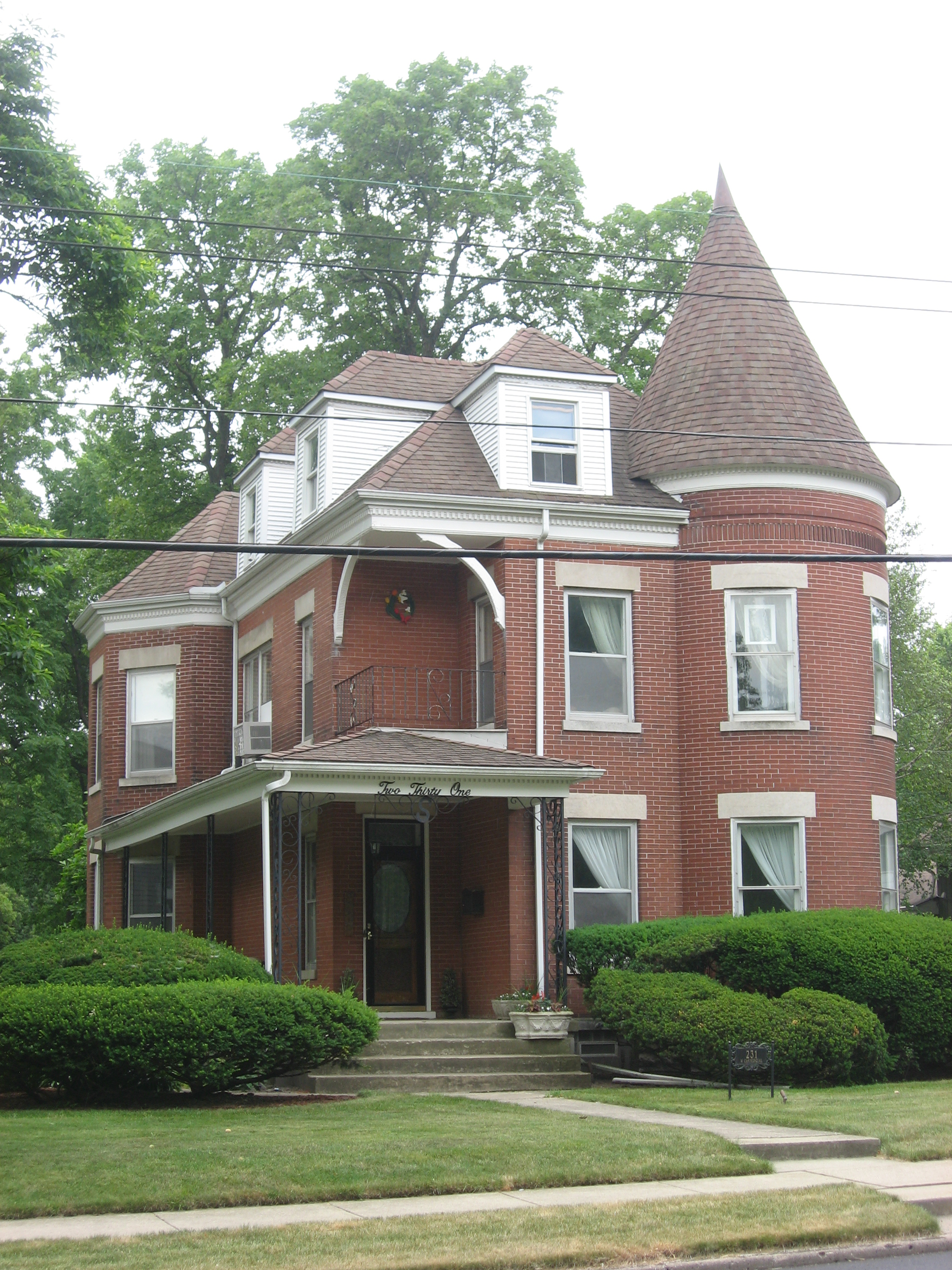 Front of the Charles E. Nichols House, located at 231 W. Commercial Avenue (State Road 2) in Lowell, Indiana, United States. Built in 1902, it is listed on the National Register of Historic Places.